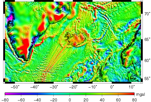 Free-air gravity anomaly in the north Atlantic around Iceland, based on the datasets of Sandwell and Smith. For better representation the color scale was limited to anomalies up to +80 mgal. Source: created by the author with GMT (26/9/2005).